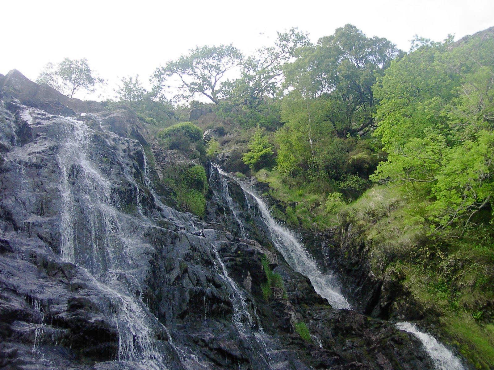 Rhiwargor Falls on the Lake Vyrnwy Estate in Powys. Taken halfway up the falls.